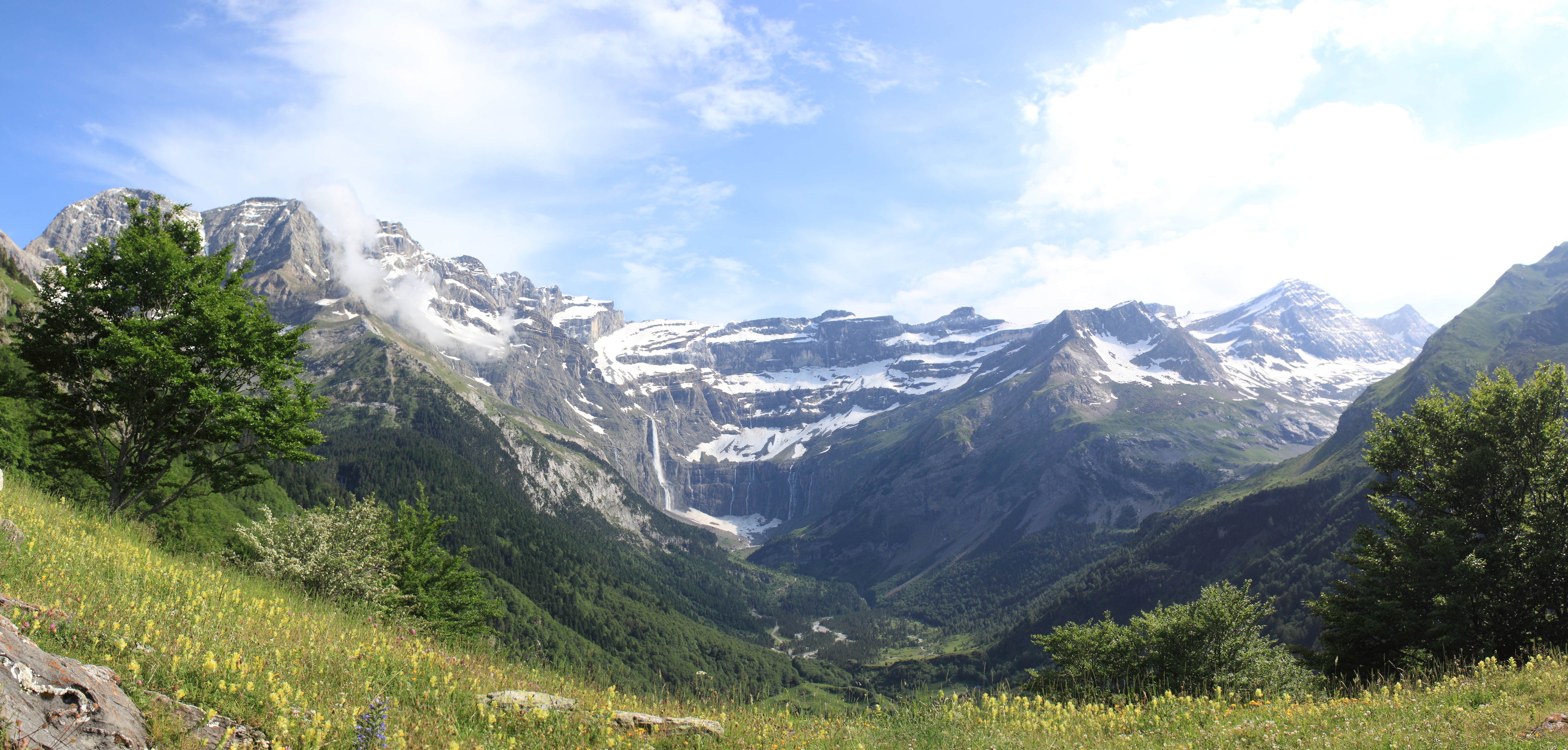 This is a panoramic view of the "Cirque de Gavarnie".